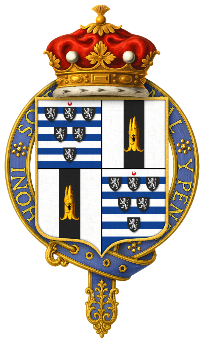 Shield of arms of Robert Gascoyne-Cecil, 3rd Marquess of Salisbury, KG, as displayed on his Order of the Garter stall plate in St. George's Chapel.